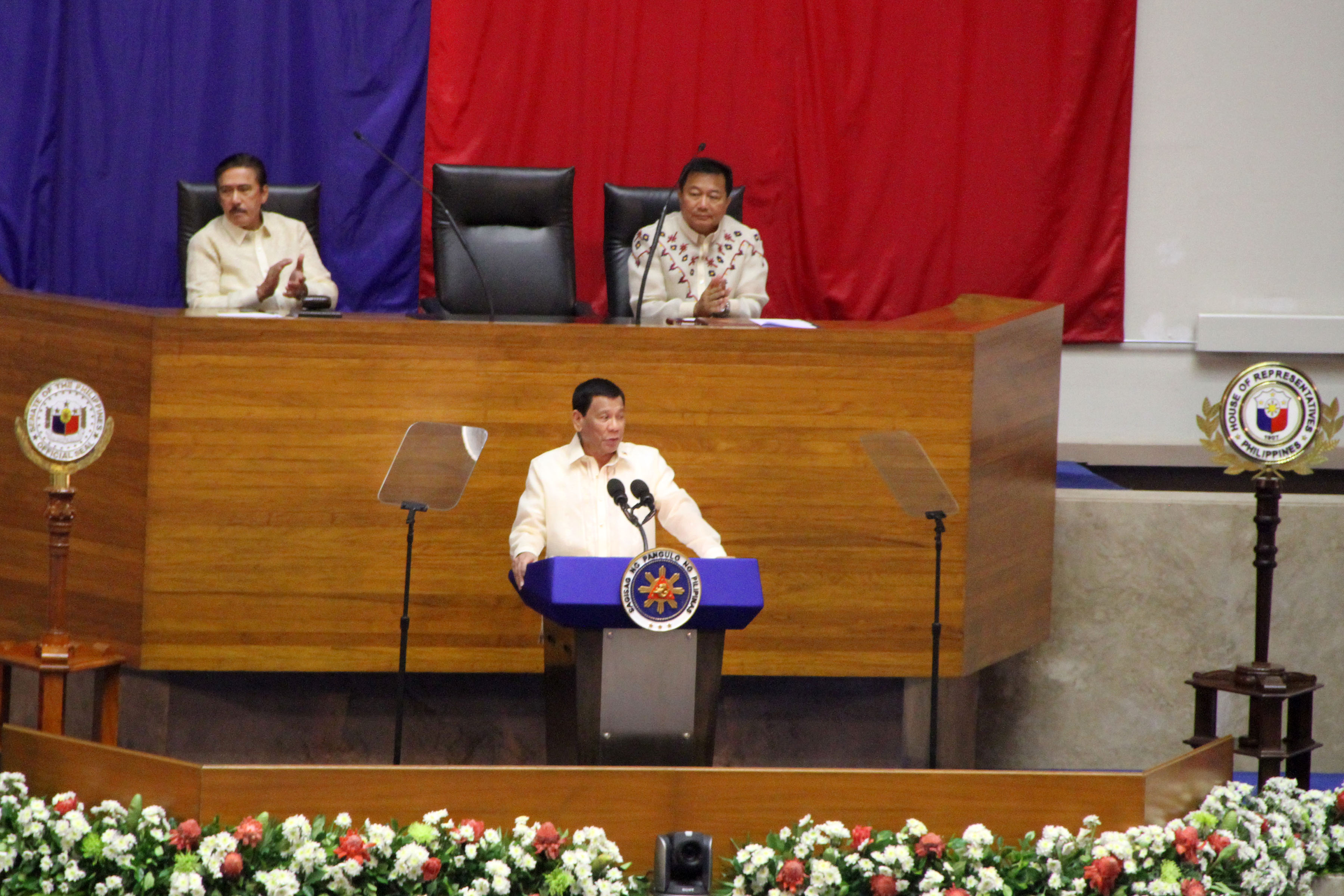 President Rodrigo Roa Duterte delivers his third State of the Nation Address (SONA) at the House of Representatives, Batasang Pambasa Complex, in Quezon City. on Monday (July 23, 2018). Also in photo (left) Senate President Vicente "Tito" Castelo Sotto III, and House Speaker Pantaleon Alvarez, of the 17th Congress .